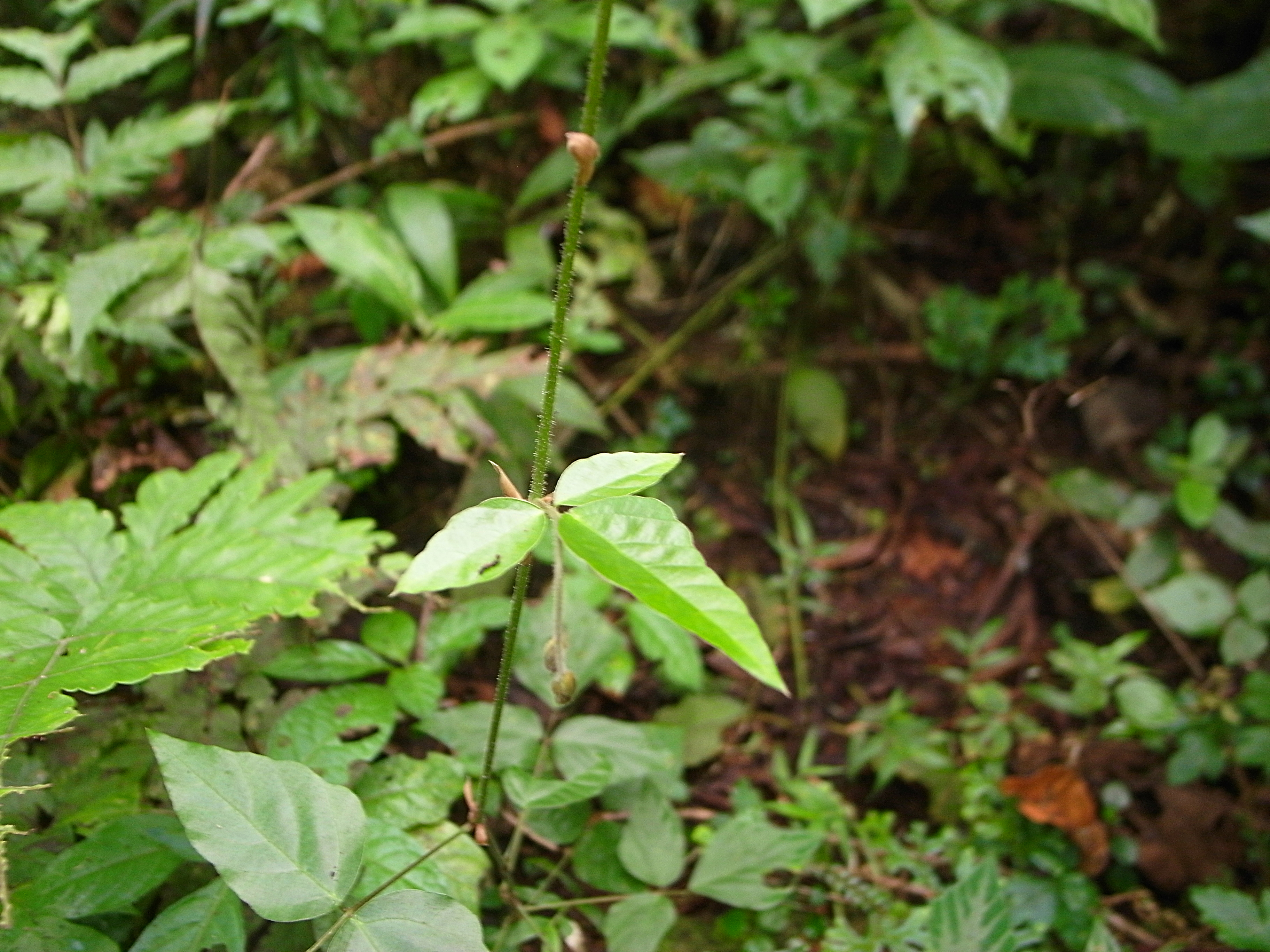 Hylodesmum repandum from Bioko. This is the scape and leaves of